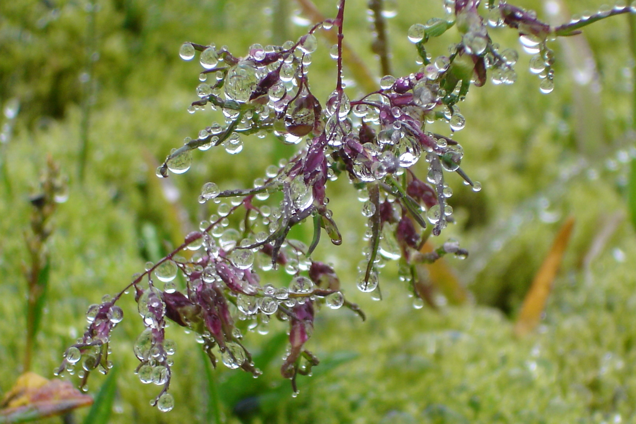 Drops on plant resulting from a mixture of fog and drizzle